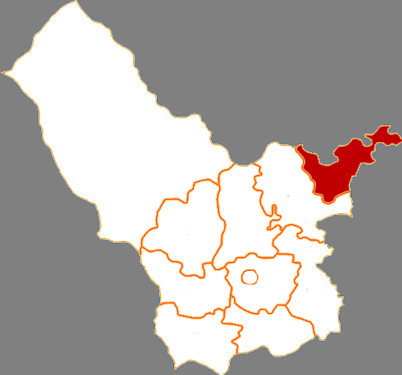 Locator map of Huade County in Ulanqab City, Inner Mongolia, China